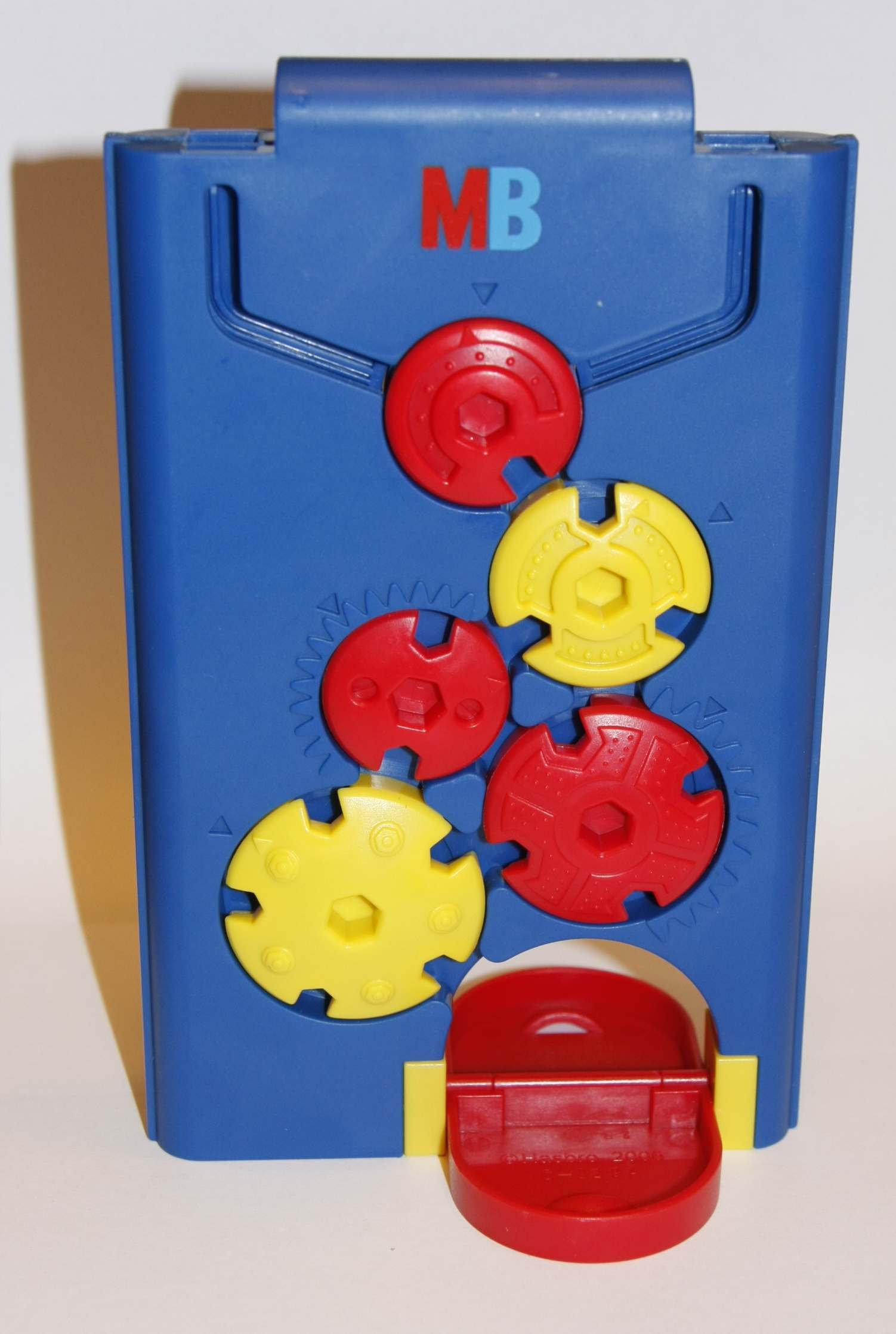 Down Fall Compact Version